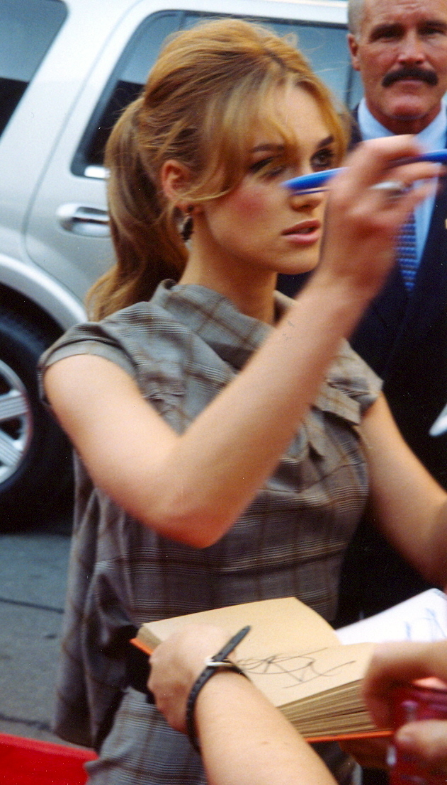 Keira Knightley at the premiere of Pride and Prejudice, 2005 Toronto Film Festival